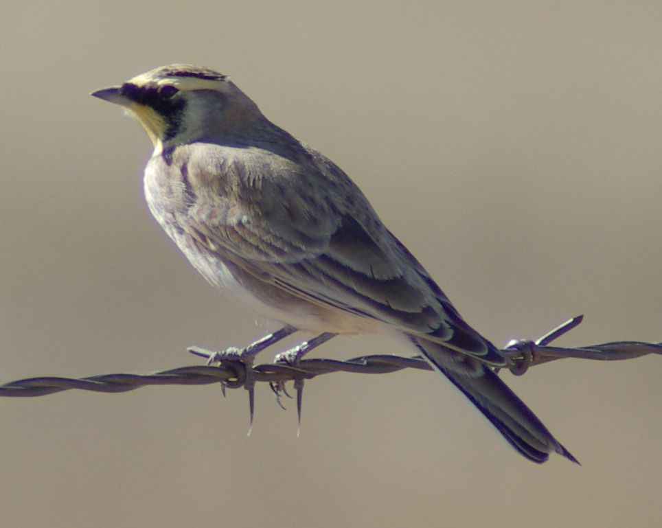 Horned Lark, Eremophila alpestris, Las Vegas National Wildlife Refuge, New Mexico.